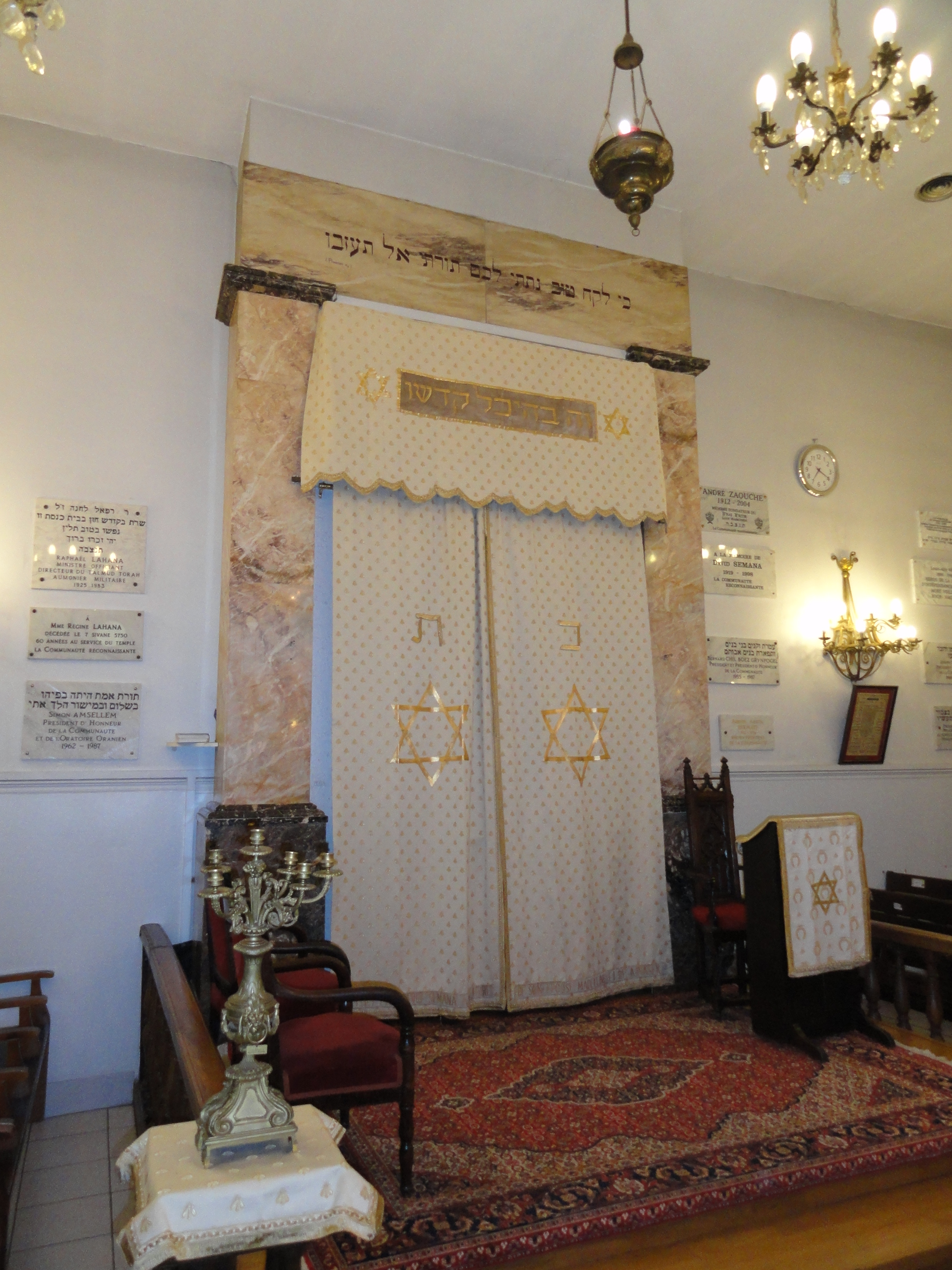 Torah ark of Synagogue Palaprat in Toulouse (Haute-Garonne, France).